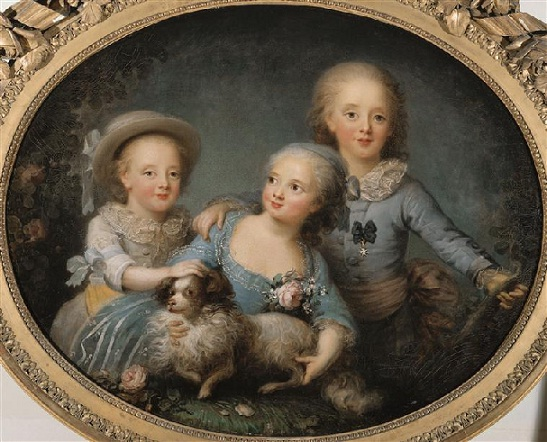 The children of the comte d'Artois (Charles, Sophie and Louis)